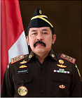 S. T. Burhanuddin, Attorney General of the Republic of Indonesia